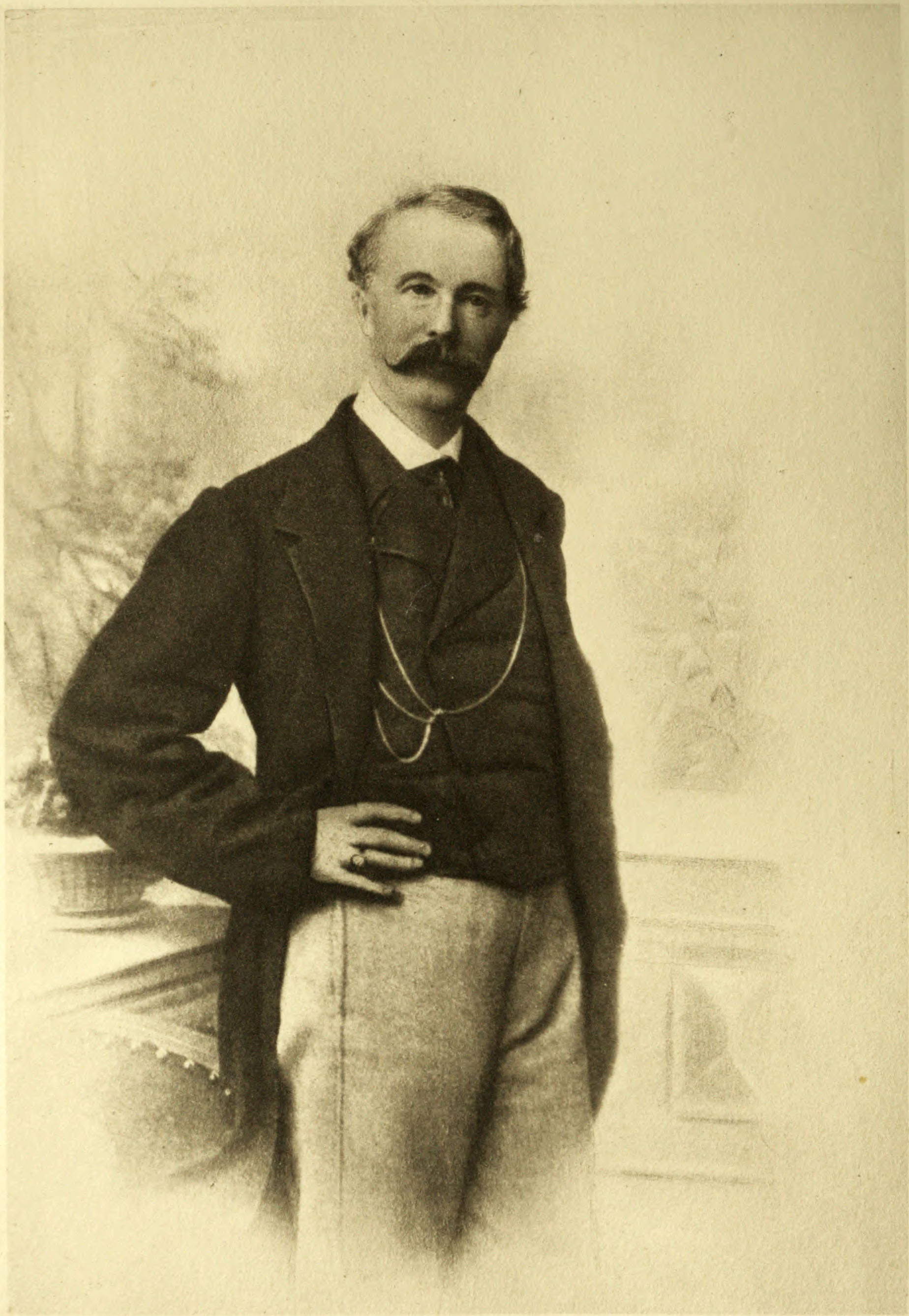 This was written beneath it: The Hon. Charles Augustus Murray. at the age of 56. From a photograph Dresden